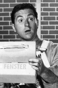 Photo of Marty Ingels as Fenster from the television program I'm Dickens, He's Fenster.